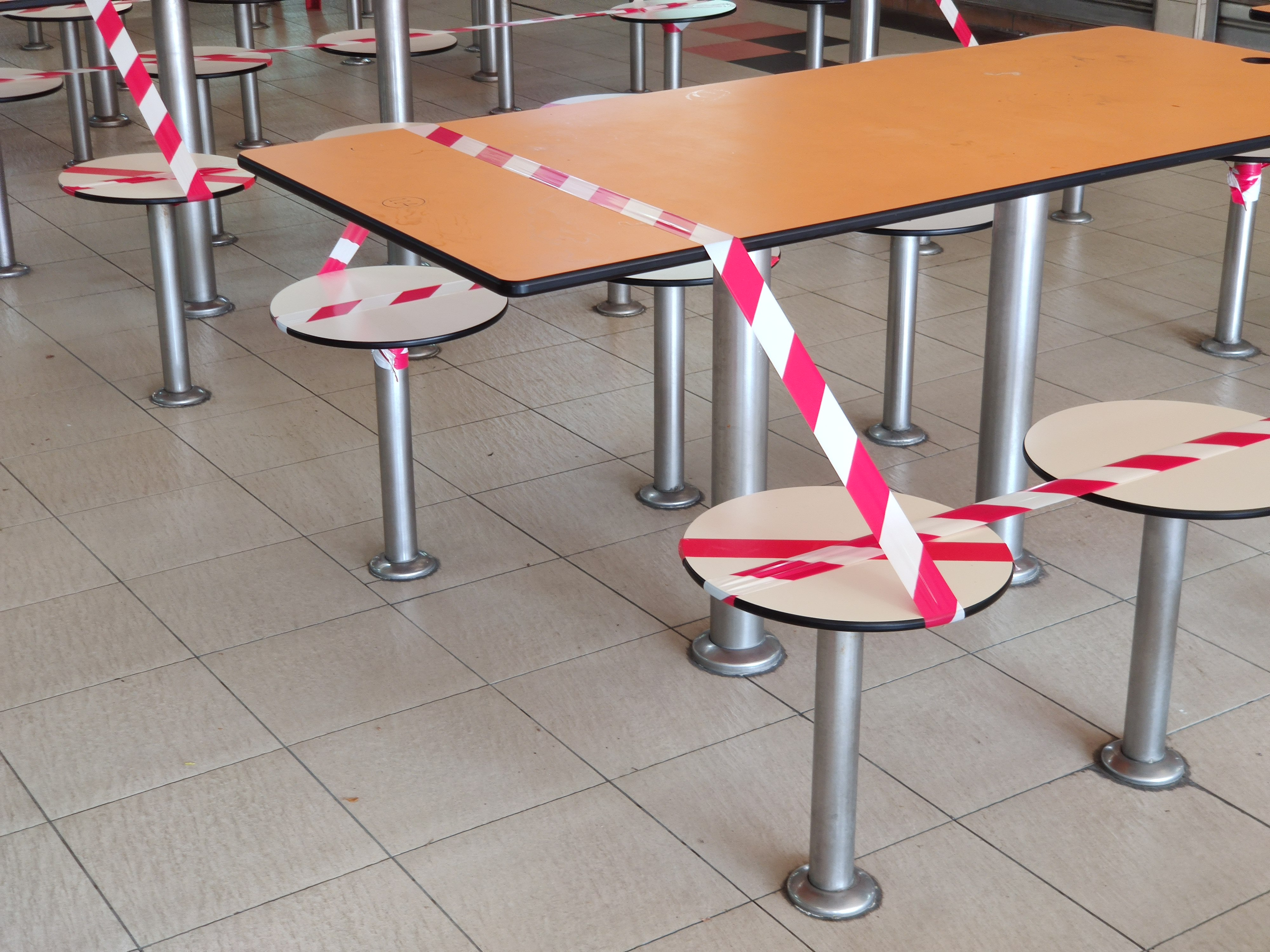 Barricade tape across tables and seats at hawker centre